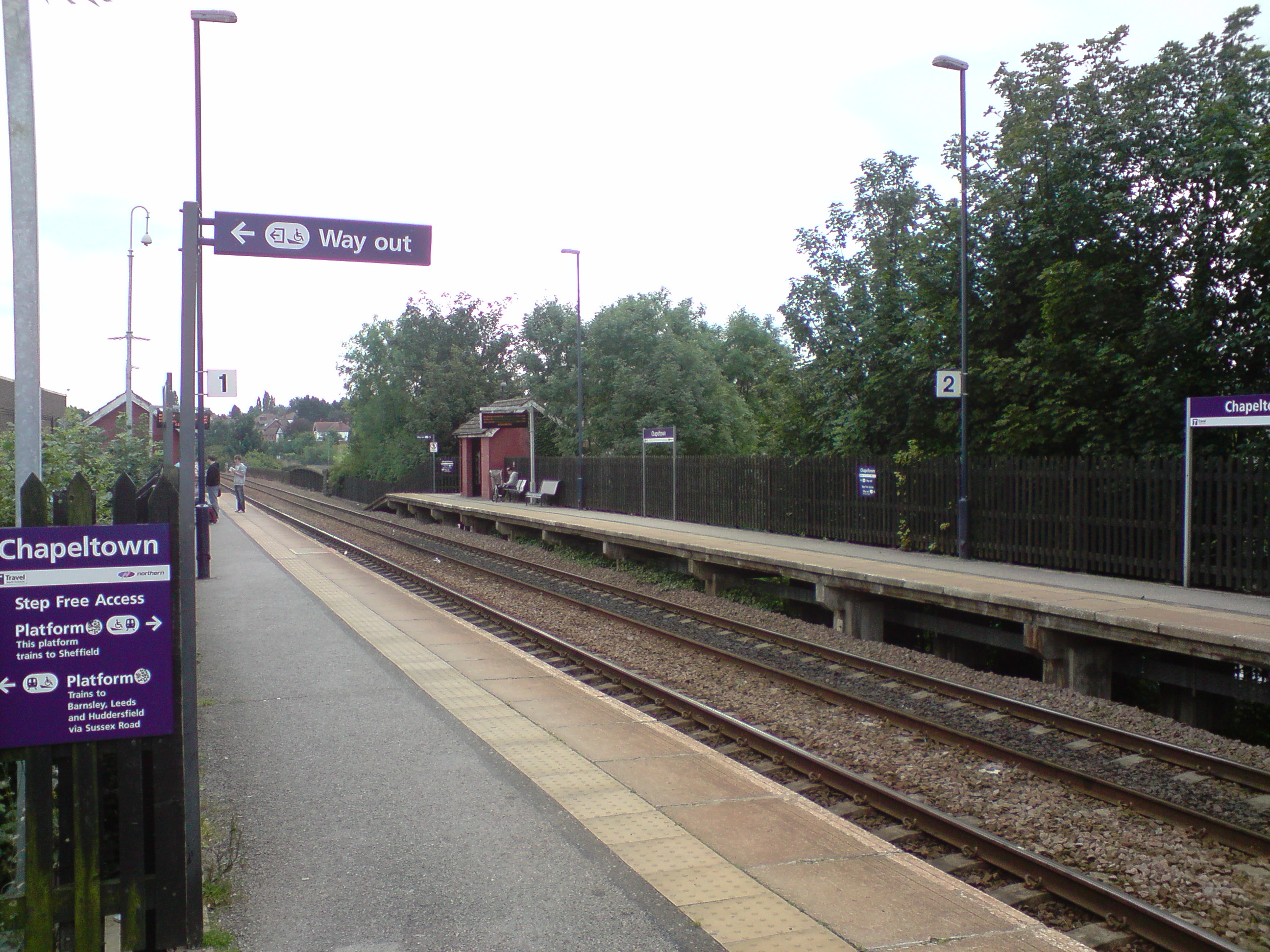 View of Chapeltown station (South Yorkshire) taken from the entrance to platform 1 from the Asda supermarket.